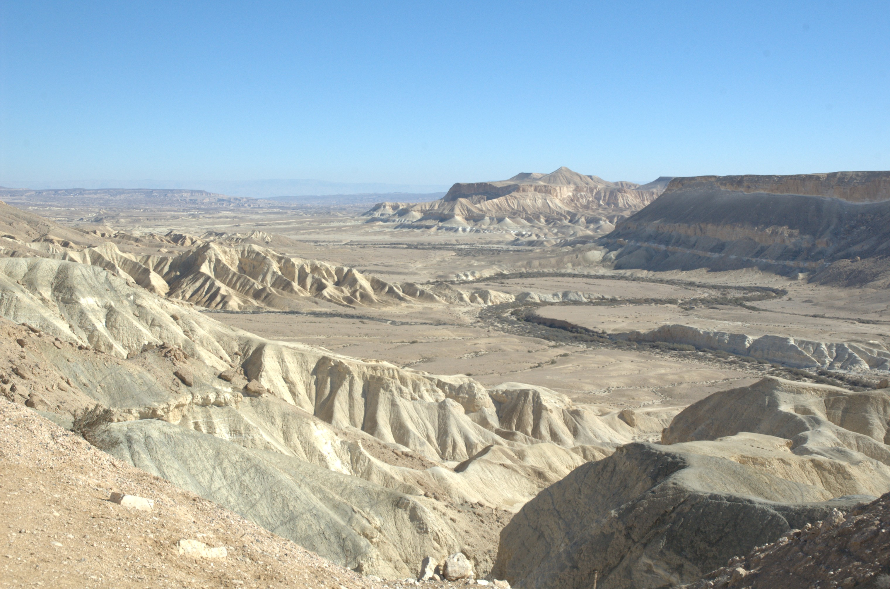 Zin River, Negev, Israel